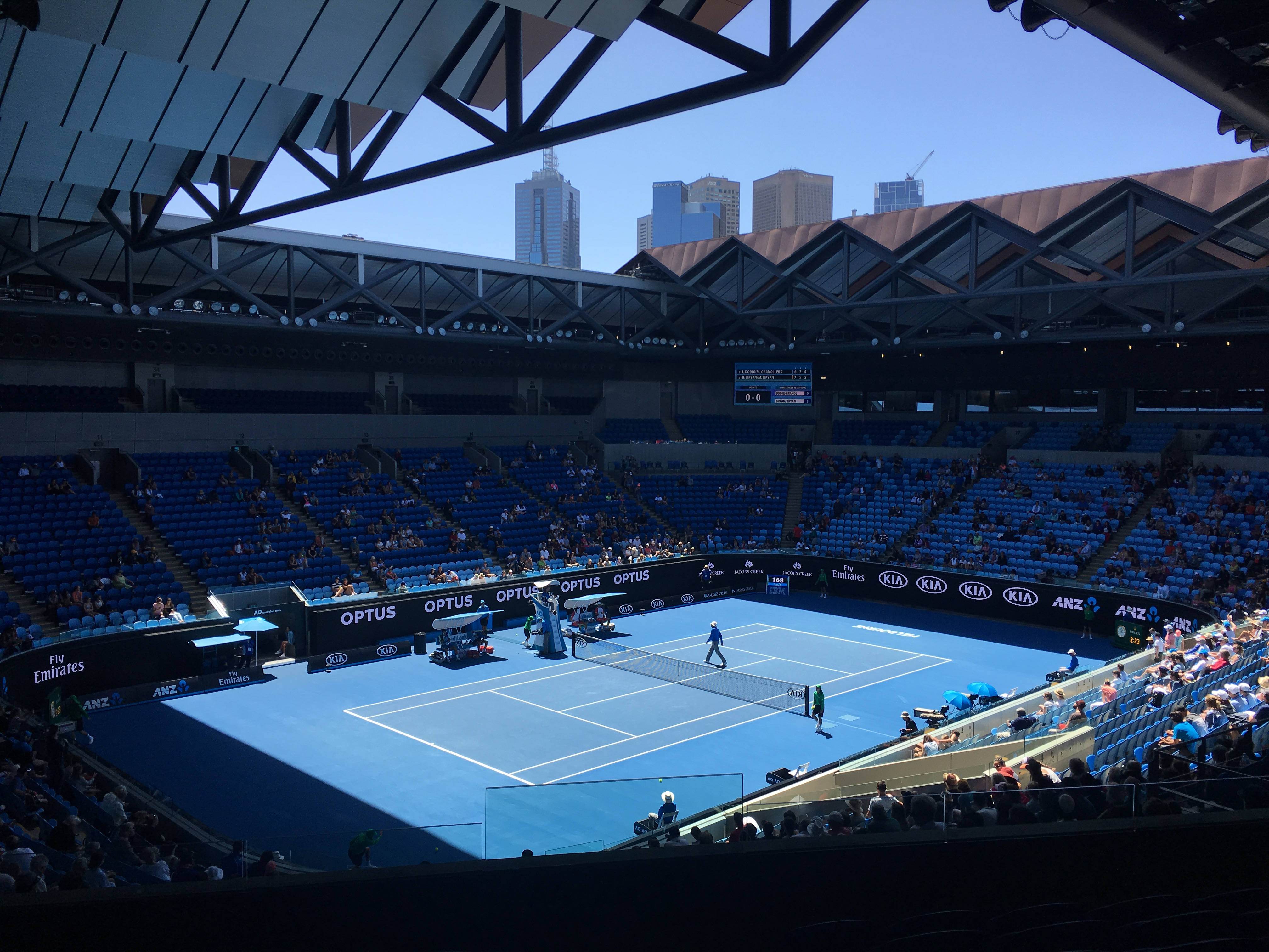 Margaret Court Arena during a day session at the 2017 Australian Open.